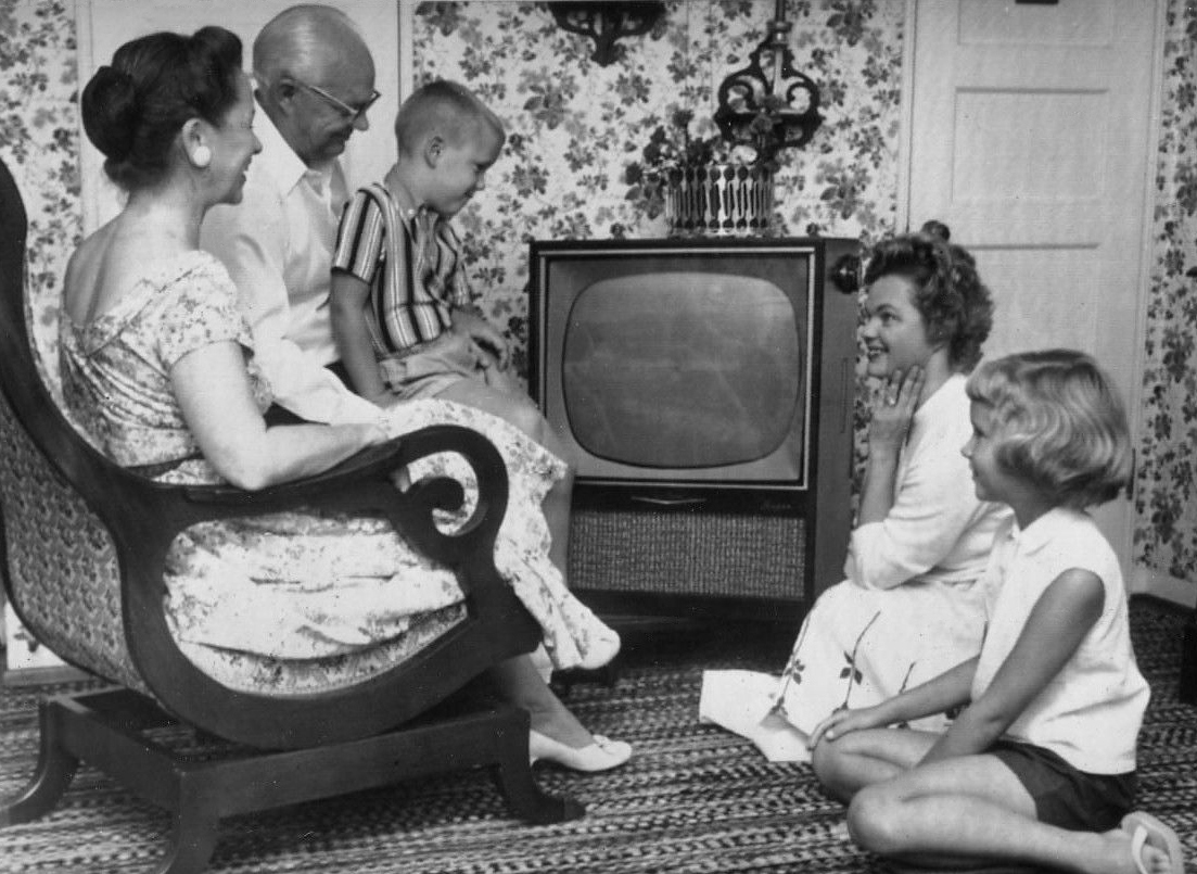 Wife of Bob Rosburg watches her husband win the 1959 PGA Championship, together with children Bruce and Debbie and their grandfather